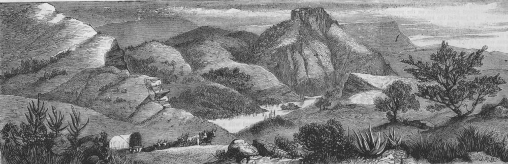 View from the Cape over the Kei River. 1877.